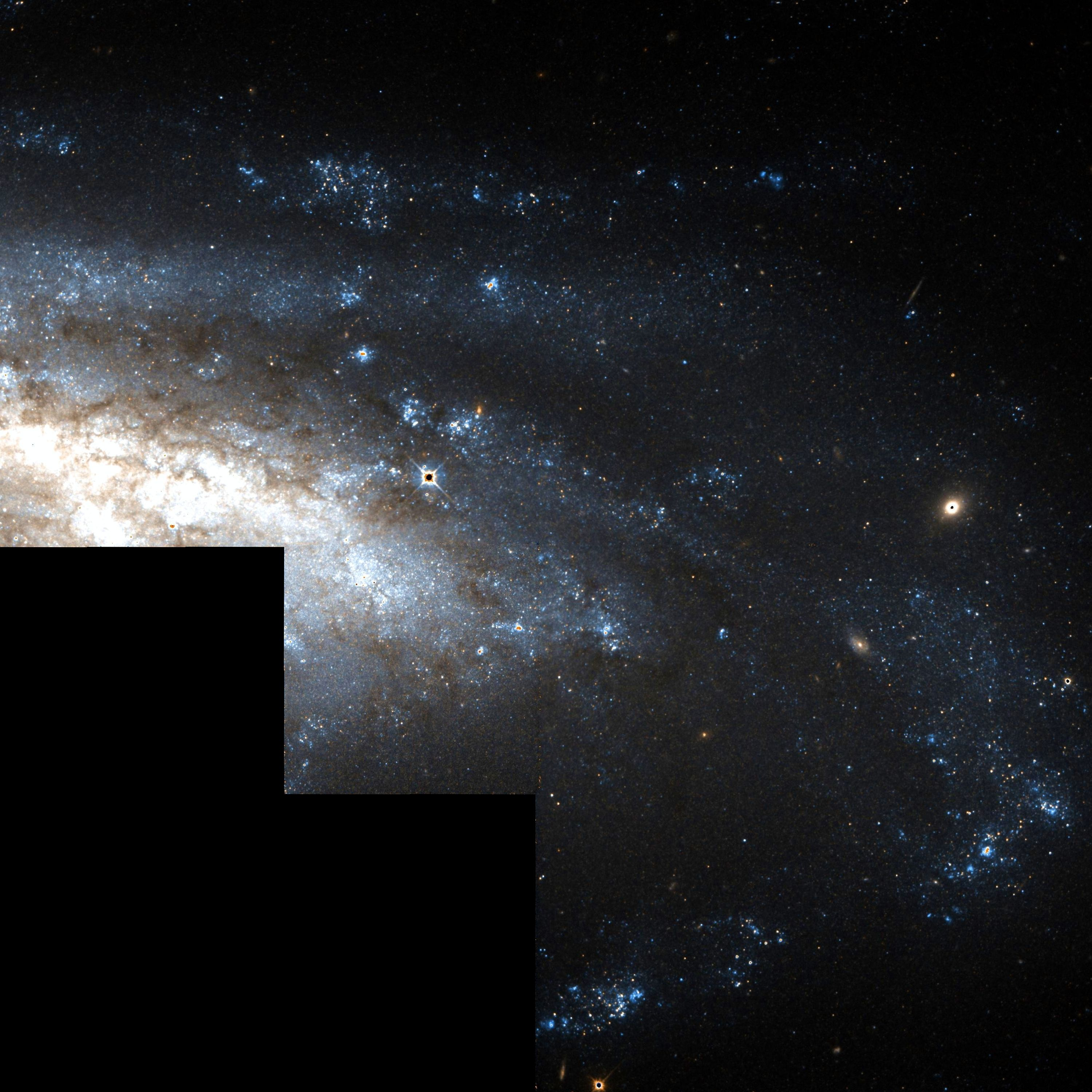 NGC 3198 spiral galaxy by Hubble space telescope